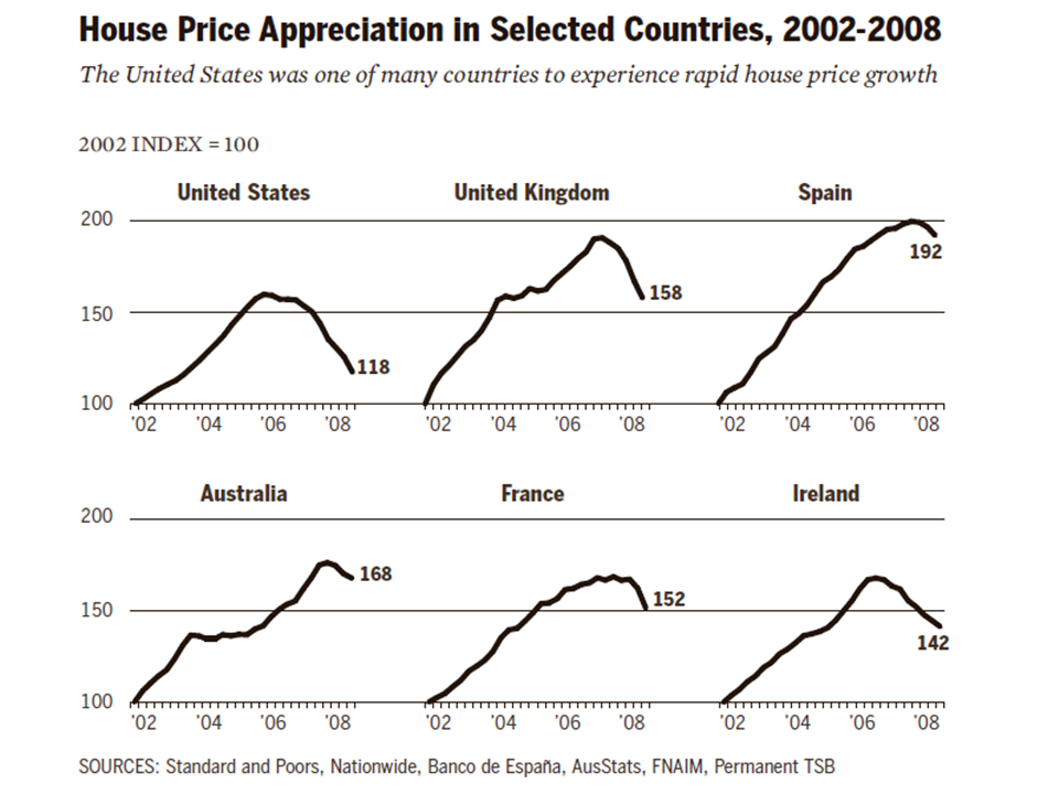 FCIC report displayed housing bubbles in multiple countries leading up to the 2008 crisis